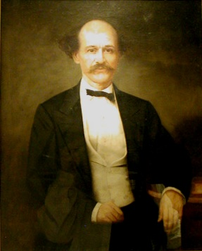 Tennessee Governor and Senator Isham G. Harris (1818–1897).